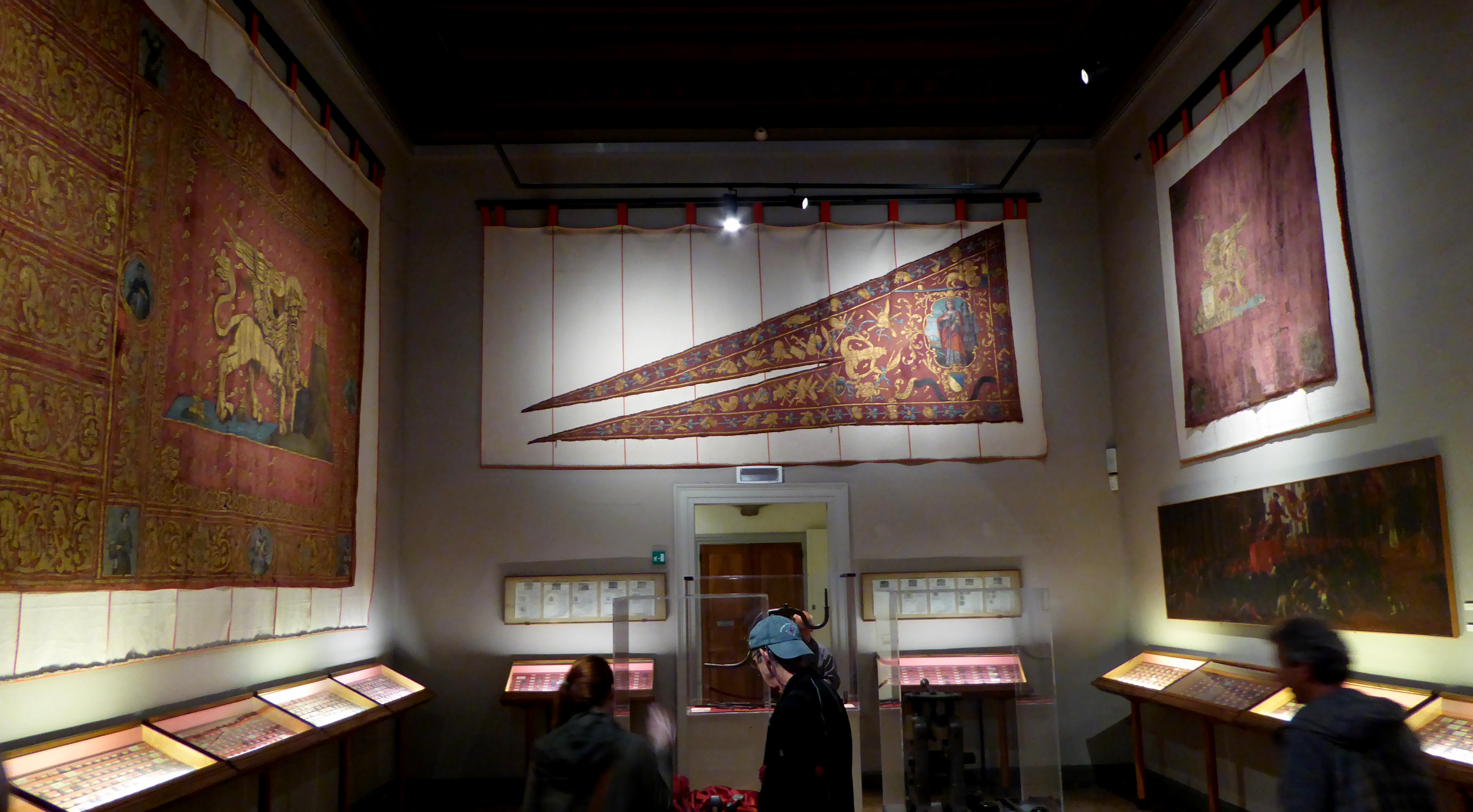 The numismatic room in the Museo Correr, a museum in San Marco, Venice.